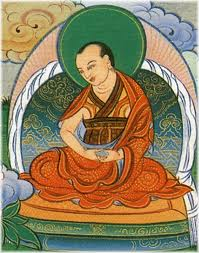 Rigdzin Kumaradza (1266–1343), Nyingma practitioner